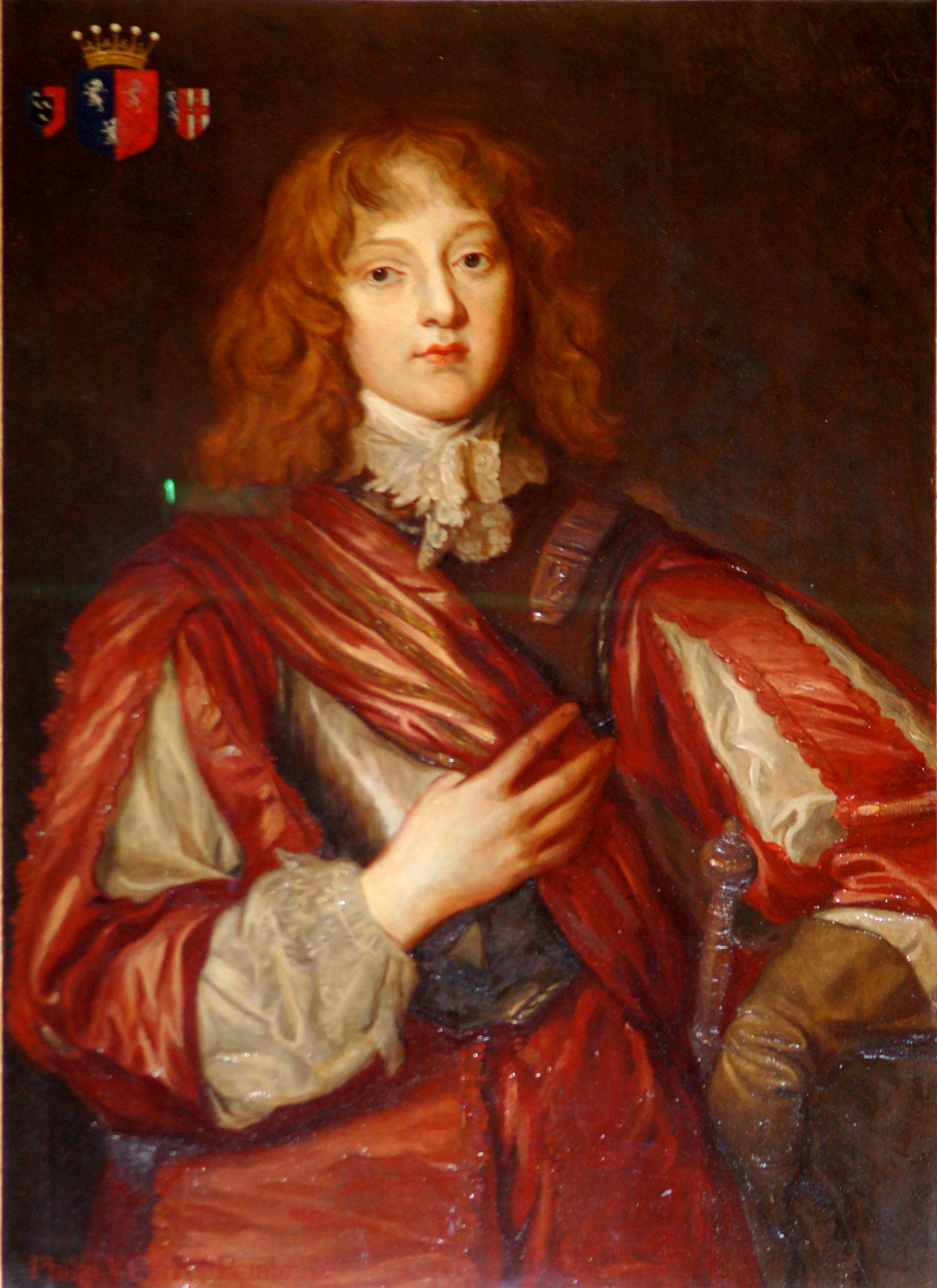 Portrait of Philip Herbert, 5th Earl of Pembroke (after Anthony van Dyck)